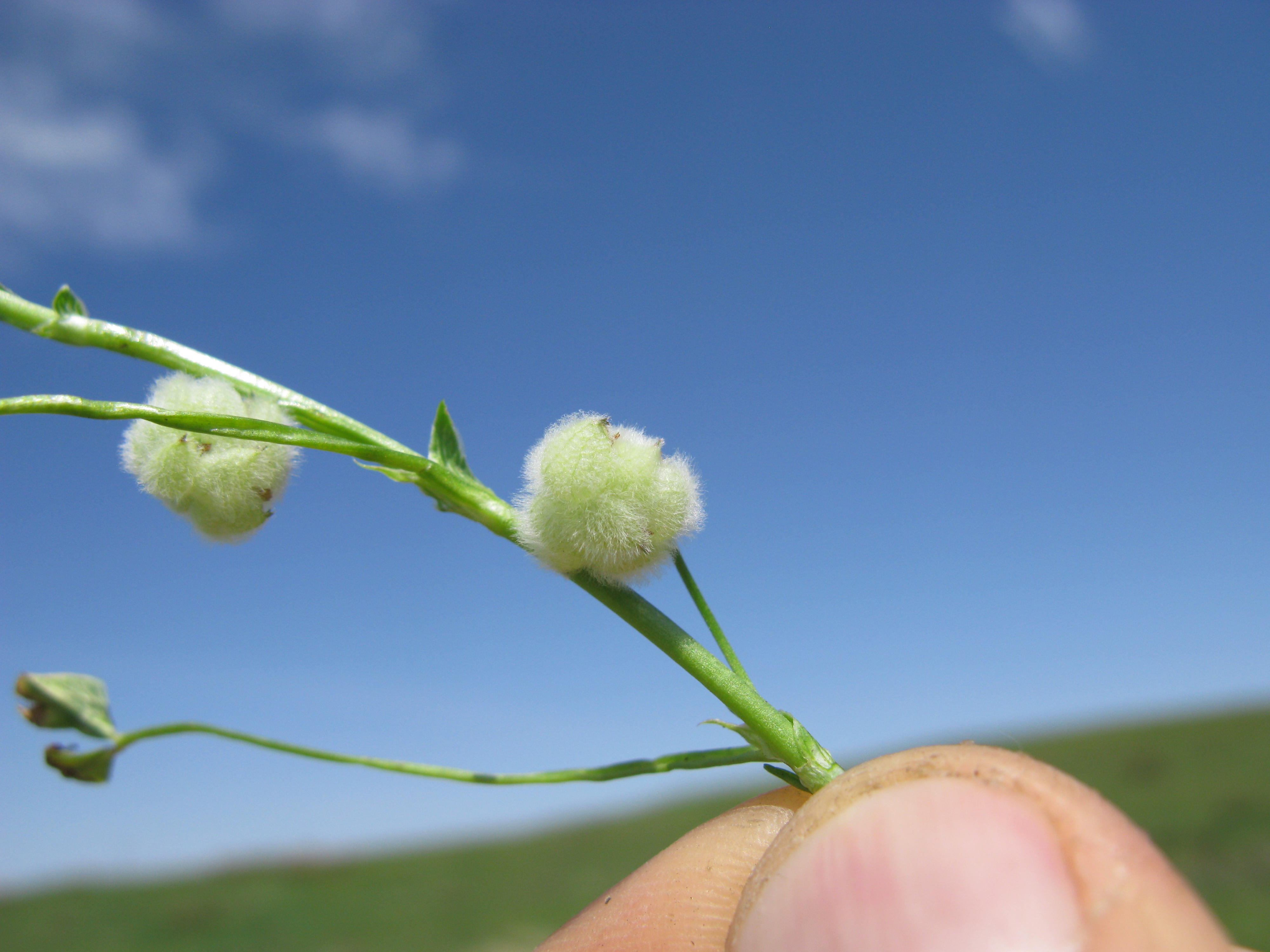 Introduced, cool season, annual, prostrate, erect or ascending, hairless or sparsely hairy legume with branches to 60 cm long. Leaves are trifoliolate, wih leaflets ± obovate, toothed and 4–15 mm long. Flowerheads are umbel-like, 6–12 mm long and many-flowered. Flowers occur on minute pedicels and are erect to deflexed after anthesis. Petalsare 3–6 mm long, longer than the sepals, pink and not persistent. Fruit are woolly. Flowering i in spring. Widely naturalised, mostly on the Tablelands and Slopes.